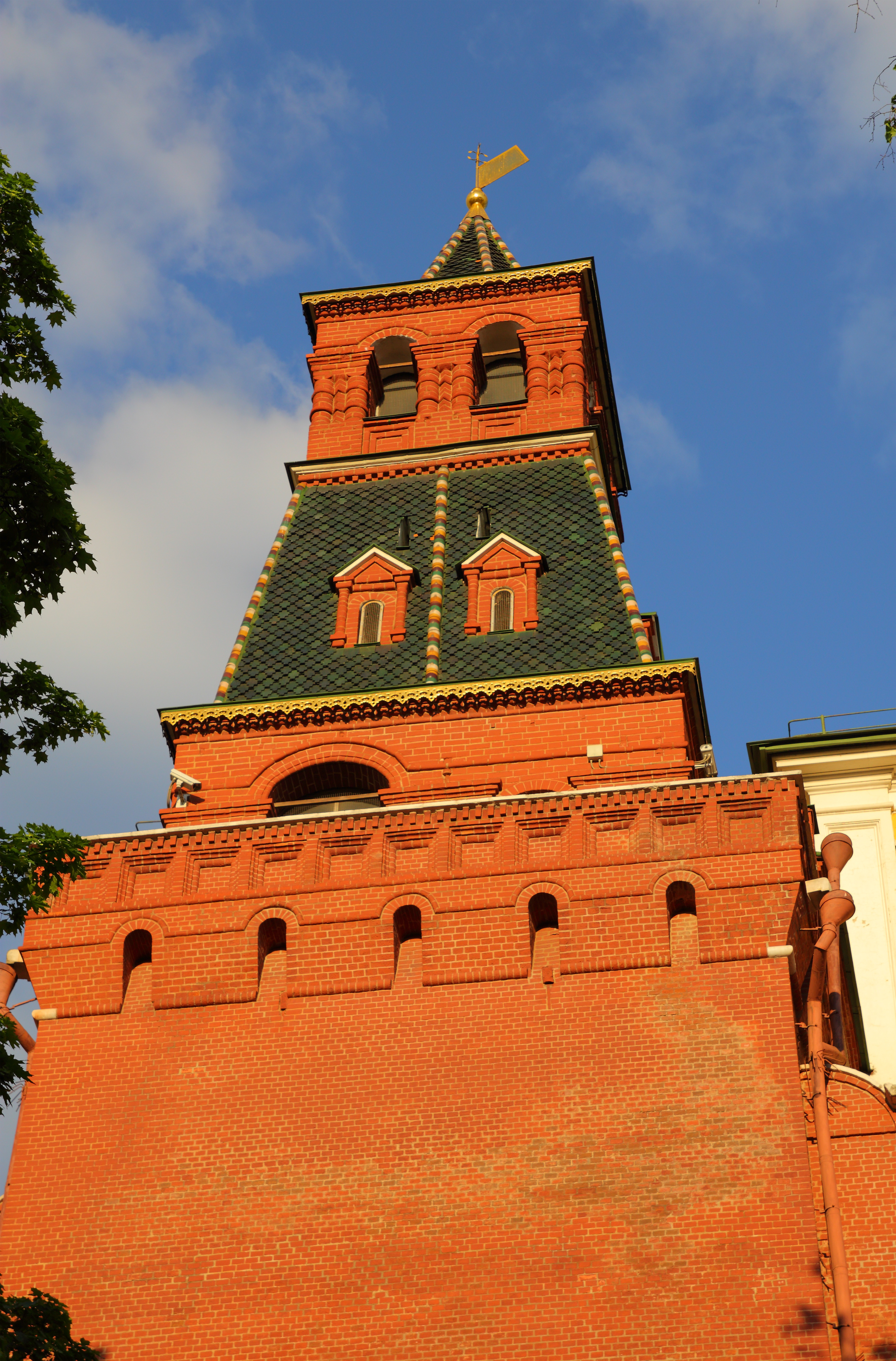 Moscow, Russia. Komendantskaya (Commandant) Tower of the Moscow Kremlin.